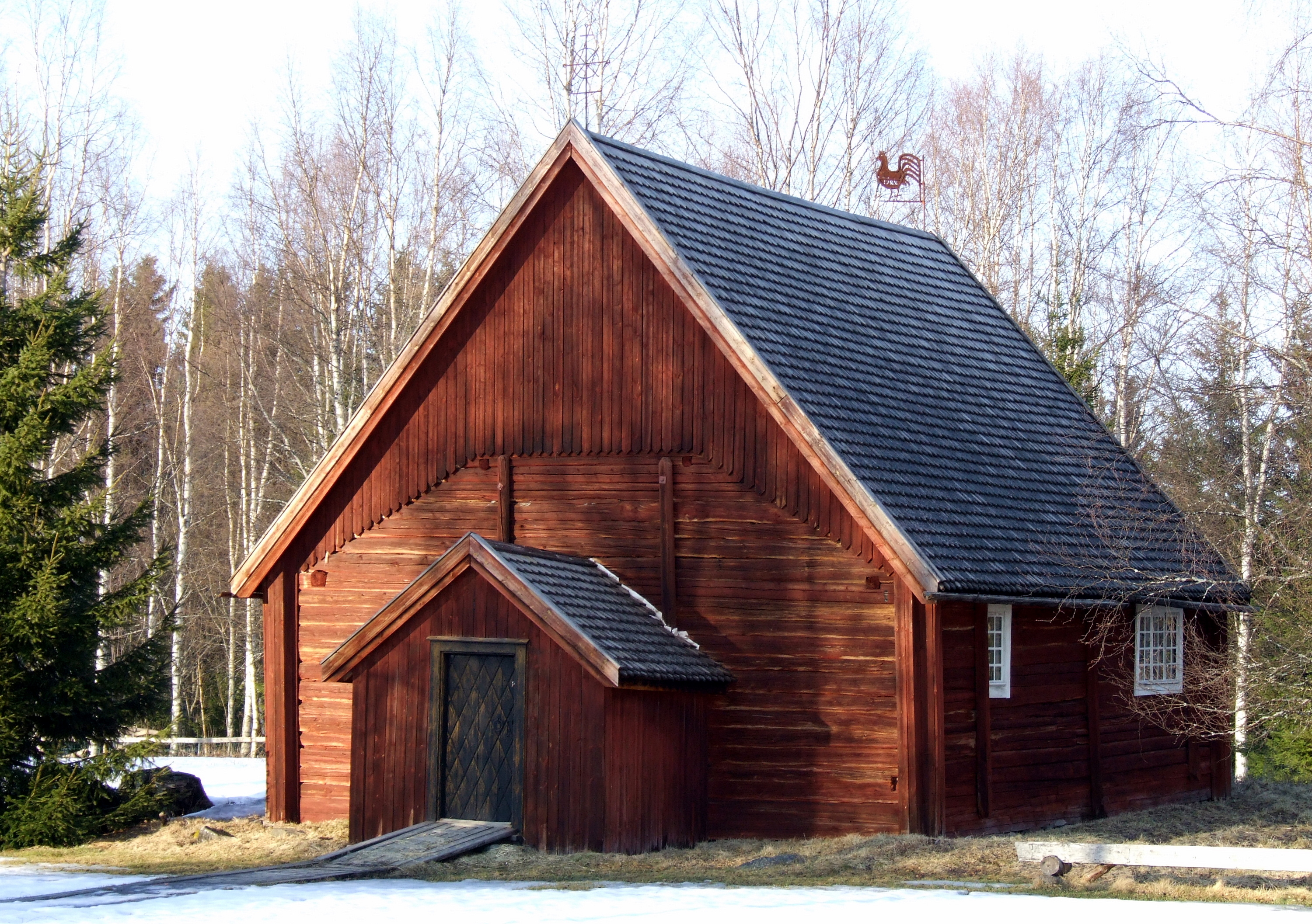 Turkansaari church in the Turkansaari Open-Air Museum in Oulu, Finland.